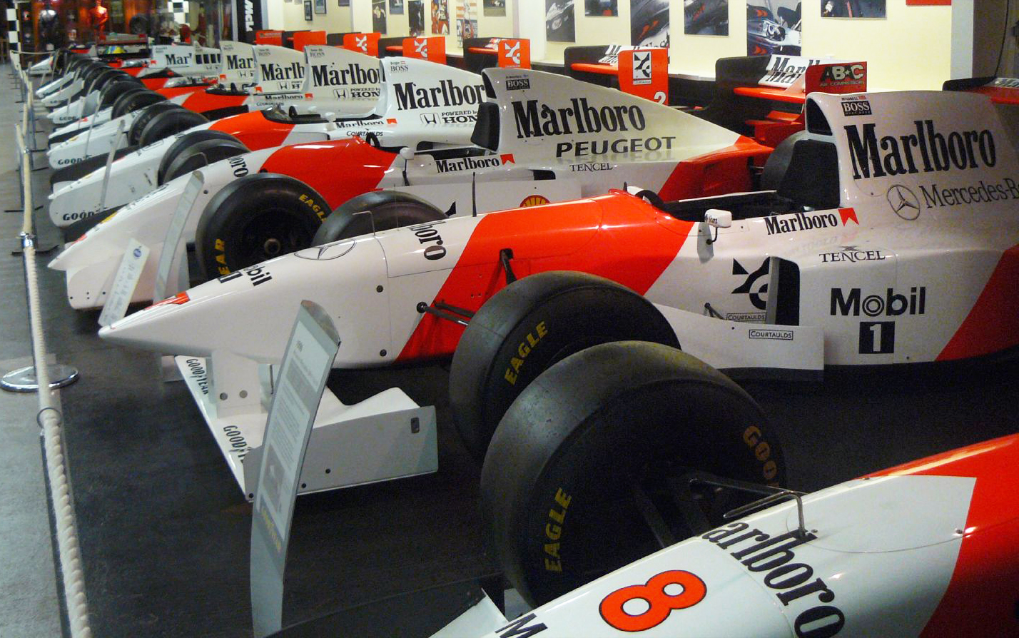 Various Marlboro liveried McLaren Formula One cars on display at the Donington Grand Prix Exhibition. Author's description :"Many Marlboro McLarens".